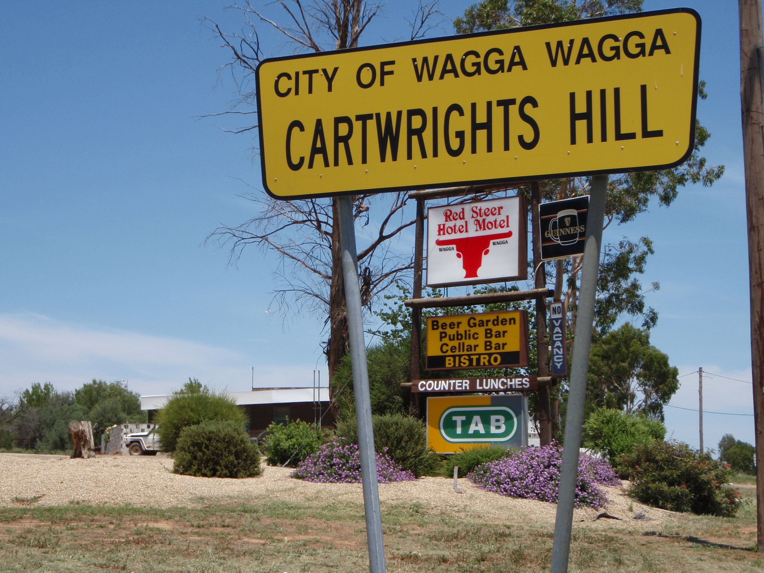 Cartwrights Hill NSW (Suburb includes Red Steer Hotel)